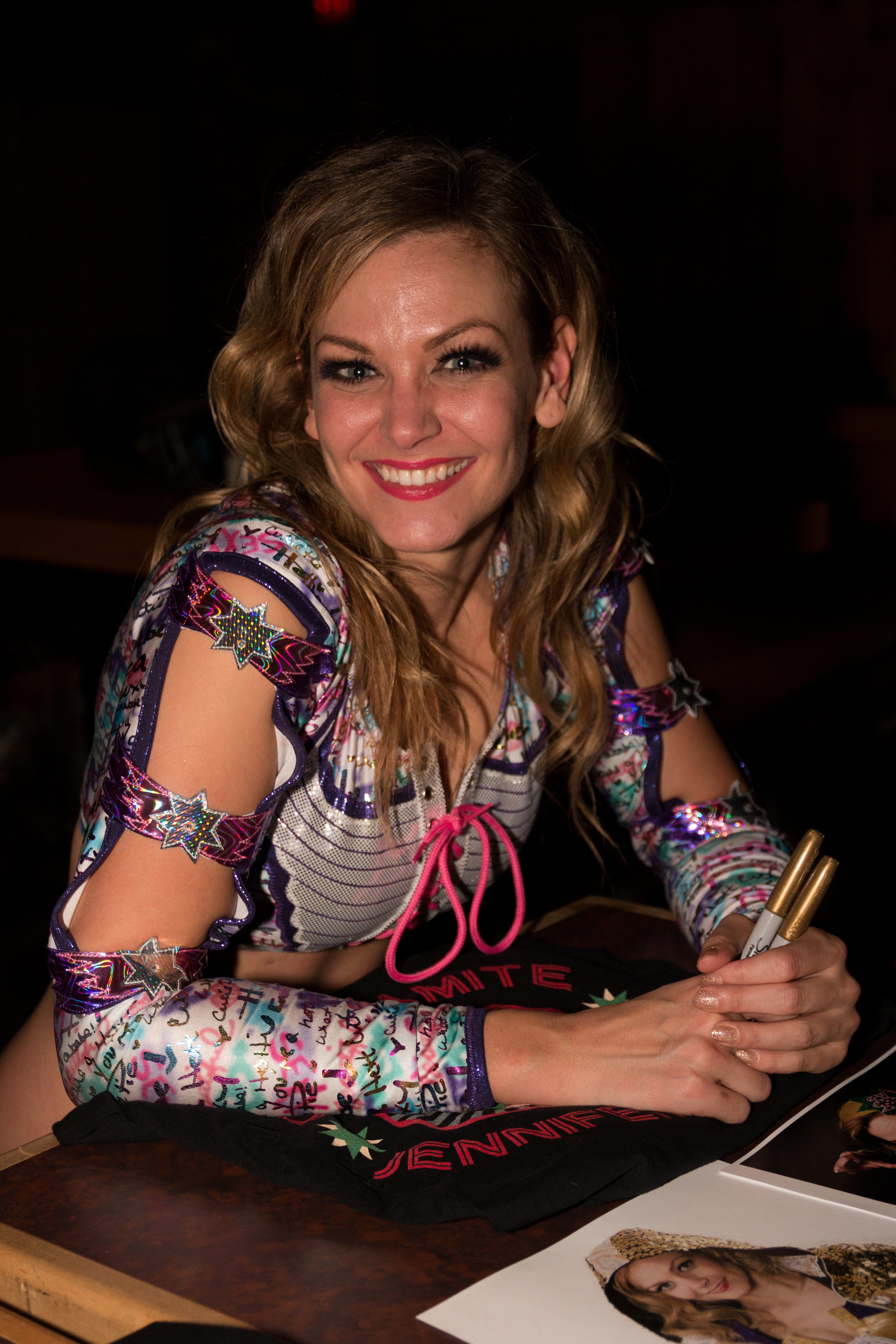 Independent wrestler Jennifer Blake at a Smash Wrestling show in London, ON